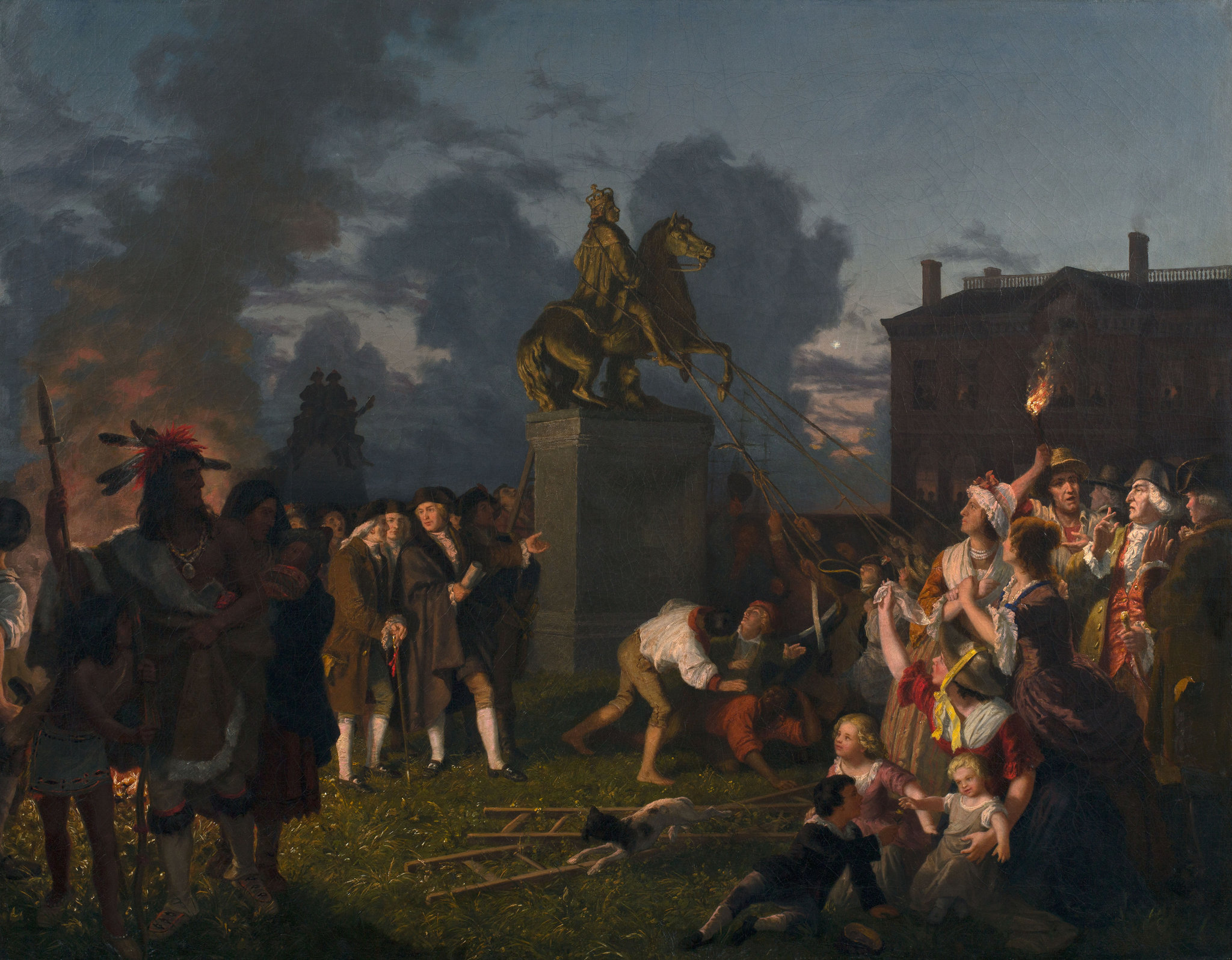 Pulling Down the Statue of King George III, N.Y.C. Working decades after the event, the artist depicts an imagined, romanticized image of the scene. The painting shows the Sons of Liberty destroying the statue after the Declaration was read by George Washington to citizens and his troops in New York City on July 9, 1776. In fact the statue was pulled down by slaves acting on the orders of their owners. Despite the presence of Native Americans, women and children, eyewitness accounts place only soldiers, sailors and more of the rougher sorts of civilians at the event. Additionally, historical records indicate the statue depicted King George III of England in ancient Roman garb based on the Renaissance sculpture of a Roman emperor, Marcus Aurelius, and not the contemporary 18th clothing depicted in this painting.